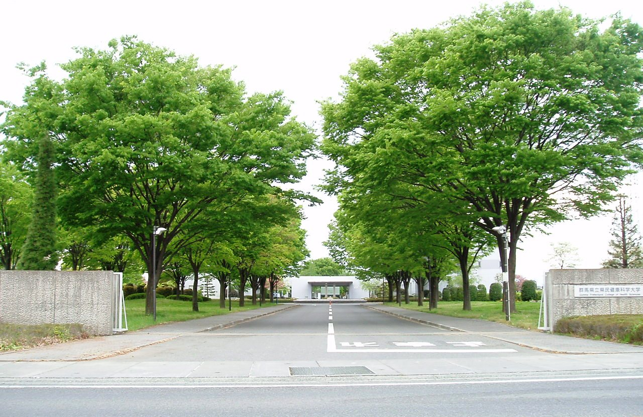 The main gate of Gunma Prefectural College of Health Sciences, located in Maebashi, Gunma, Japan.